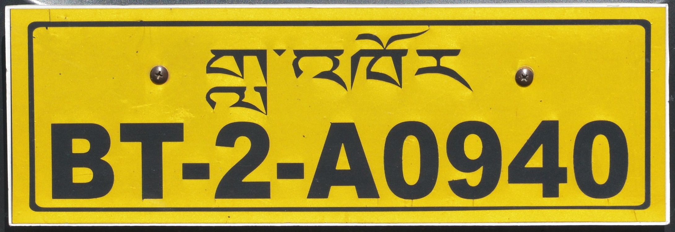 Example of Bhutan taxi licence plate